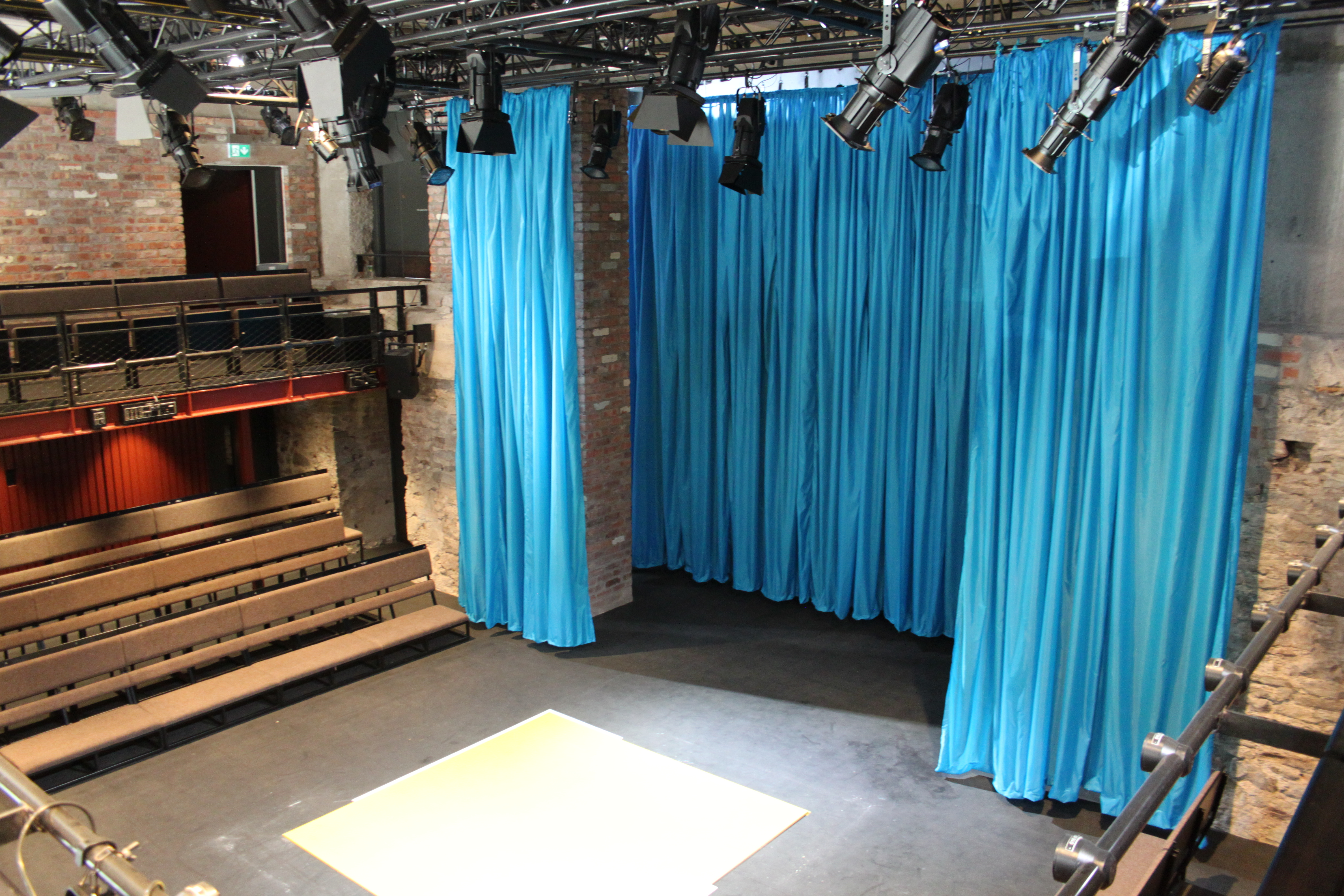 Bristol Old Vic Wikidata has entry Q917960 with data related to this item.